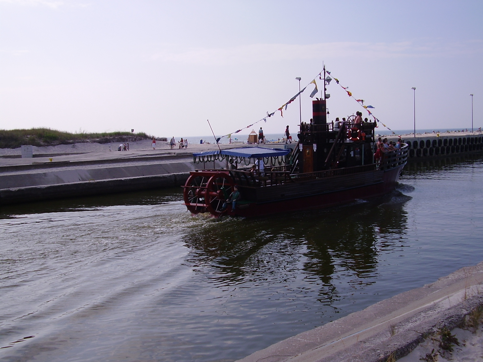 ship Missisipi at the harbour in Łeba (Poland)